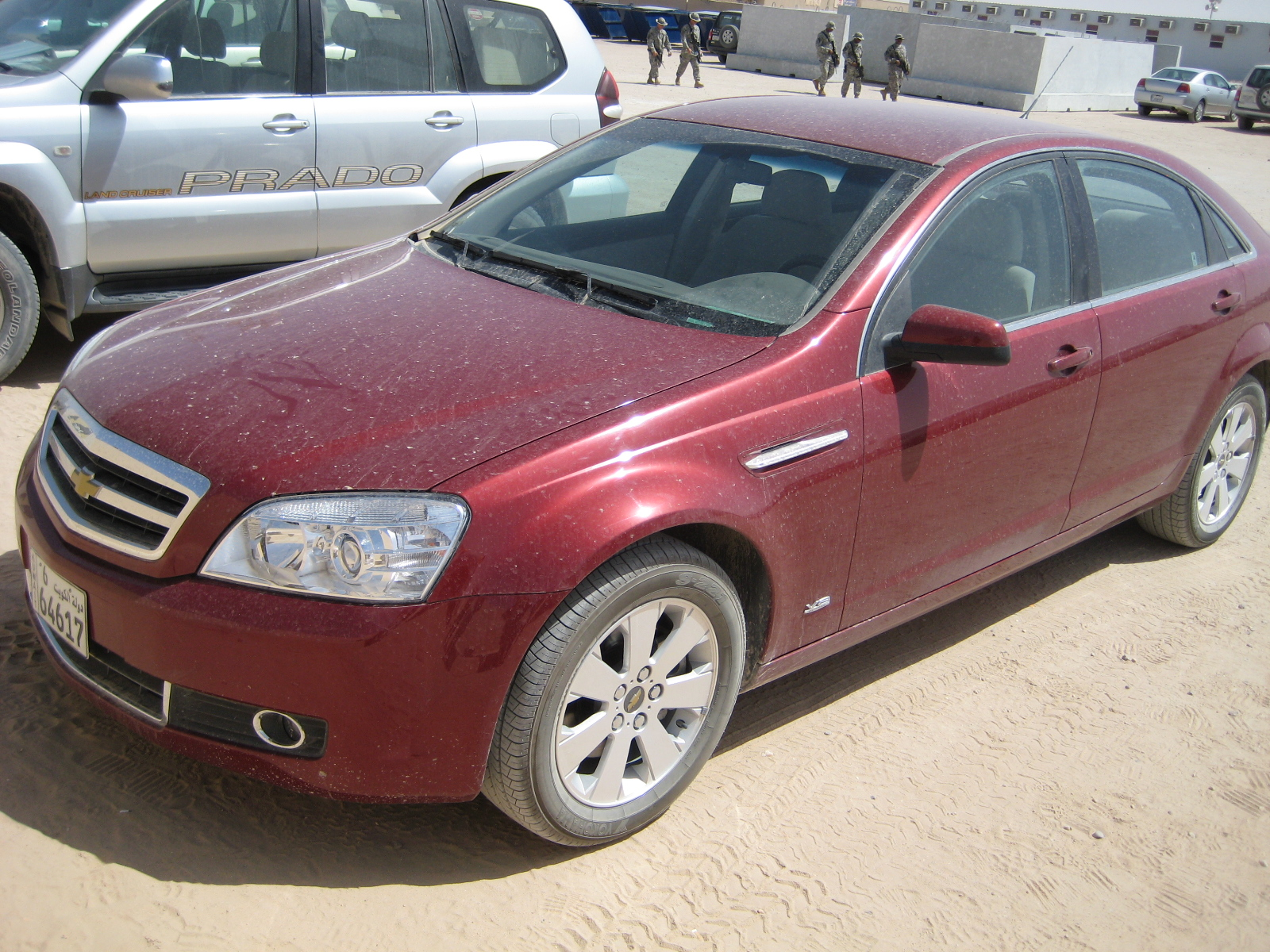 2008 Chevrolet Caprice, photographed in Kuwait.